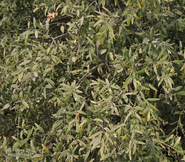 Khabbar Salvadora oleoides at Hodal in Faridabad District of Haryana, India.